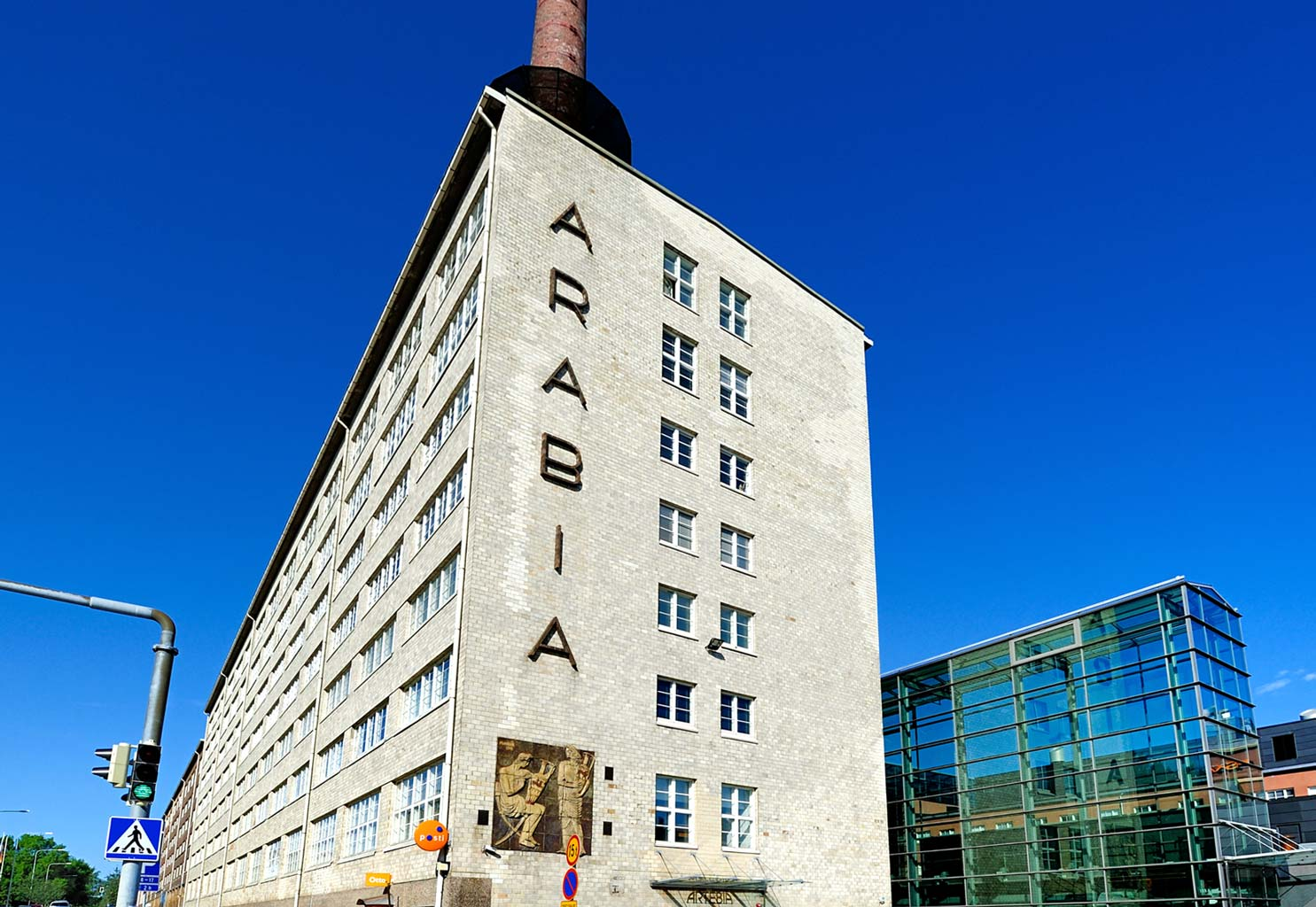 Aalto University Arabia Campus Library in Helsinki Finland. Arabia district derives its name from the old Arabia ceramics factory, where the library is situated.